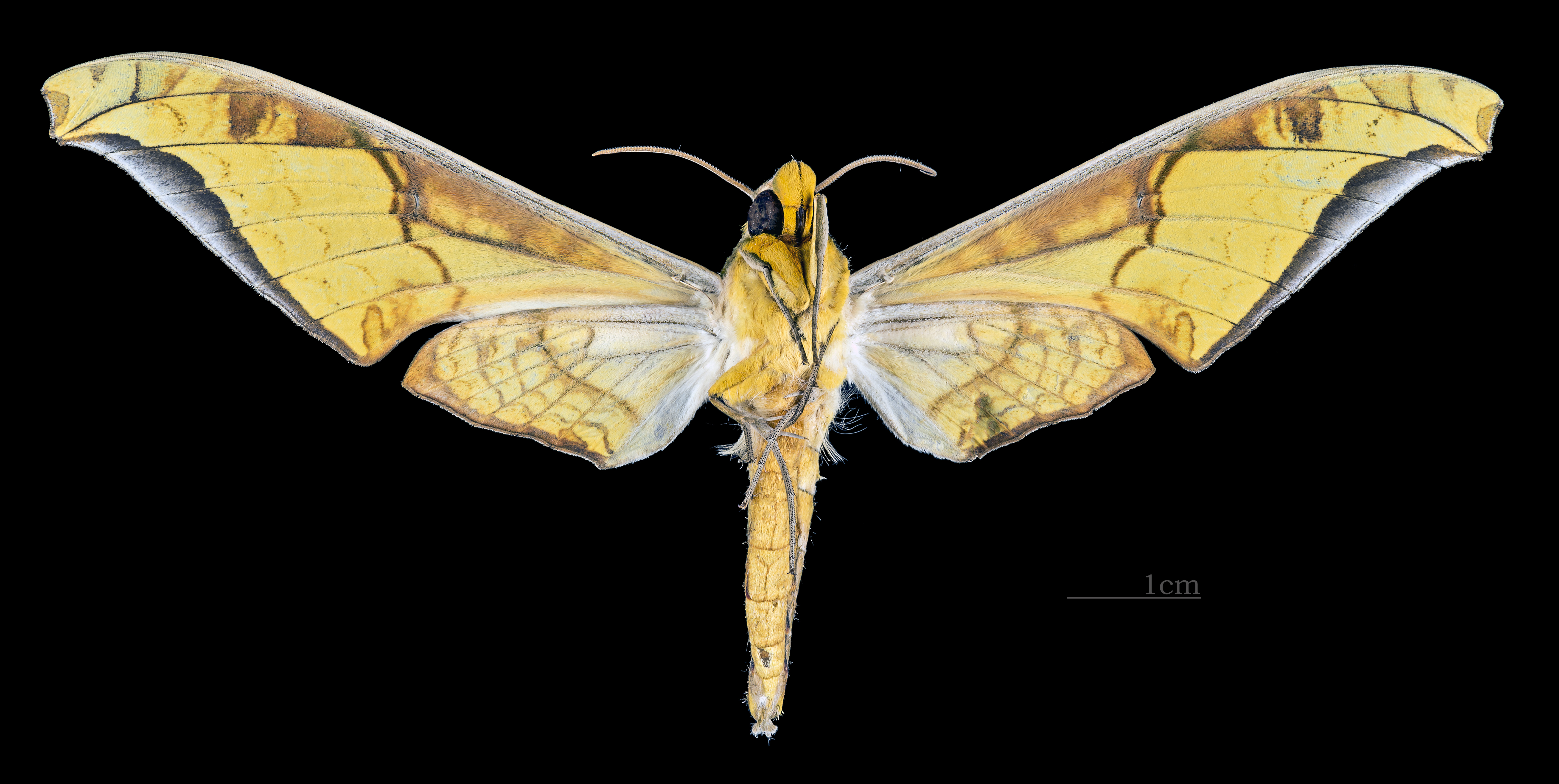 Protambulyx sulphurea - △ Ventral side Collection of the Mathematician Laurent Schwartz